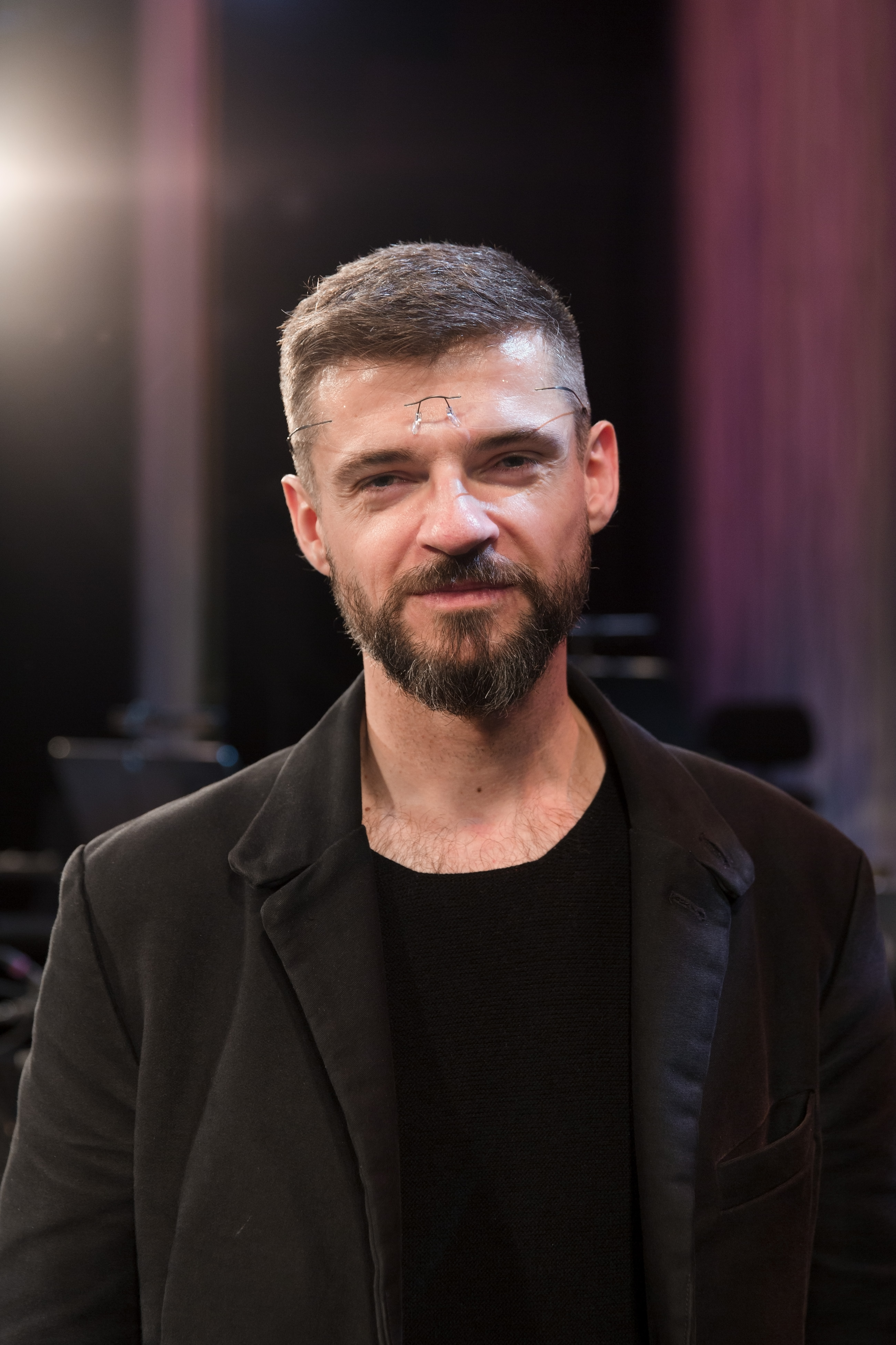 Dušan David Pařízek at the Nestroy Theatre Awards 2015 (Ronacher, Vienna, Austria).